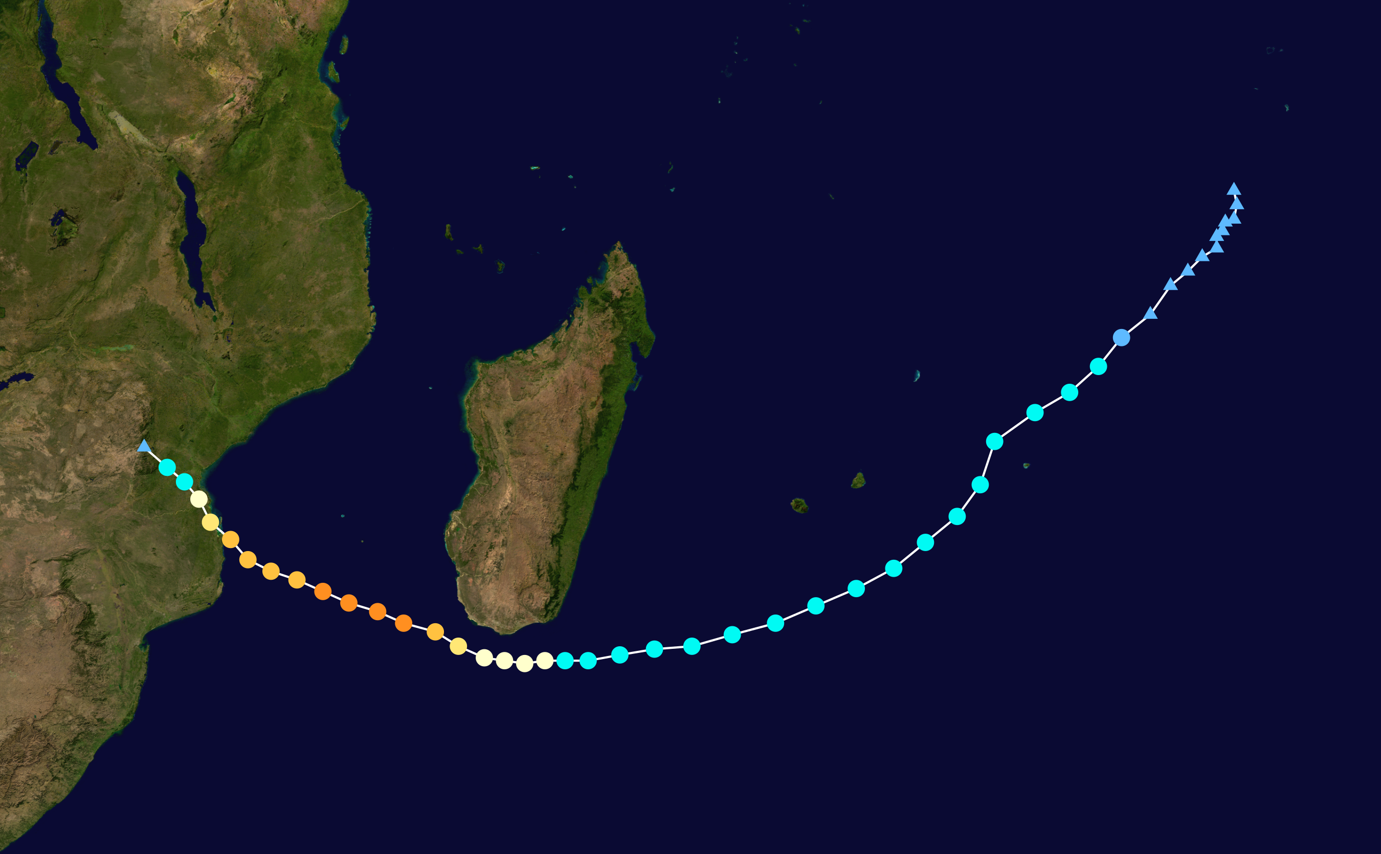 Track map of Intense Tropical Cyclone Favio of the 2006-07 South West Indian Ocean cyclone season. The points show the location of the storm at 6-hour intervals. The colour represents the storm's maximum sustained wind speeds as classified in the Saffir–Simpson scale (see below), and the shape of the data points represent the nature of the storm, according to the legend below. Saffir–Simpson scale Tropical depression≤38 mph≤62 km/h Category 3111–129 mph178–208 km/h Tropical storm39–73 mph63–118 km/h Category 4130–156 mph209–251 km/h Category 174–95 mph119–153 km/h Category 5≥157 mph≥252 km/h Category 296–110 mph154–177 km/h Unknown Storm type Tropical cyclone Subtropical cyclone Extratropical cyclone / Remnant low / Tropical disturbance / Monsoon depression